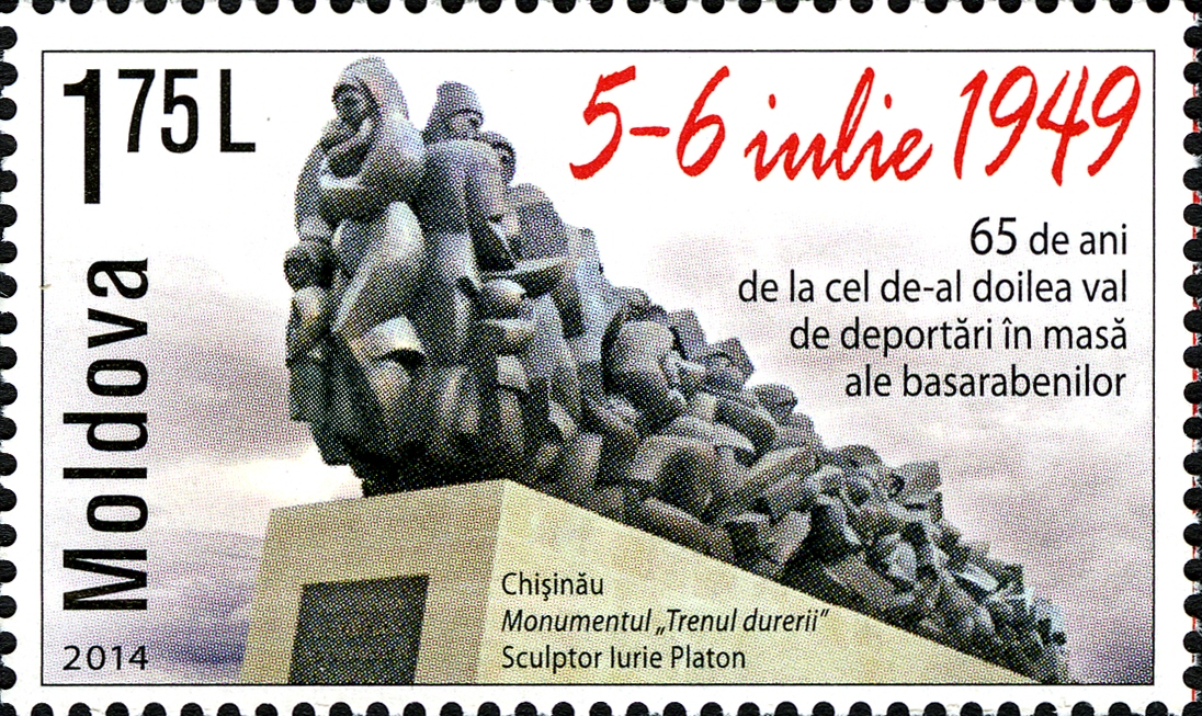 Stamps of Moldova, 2014